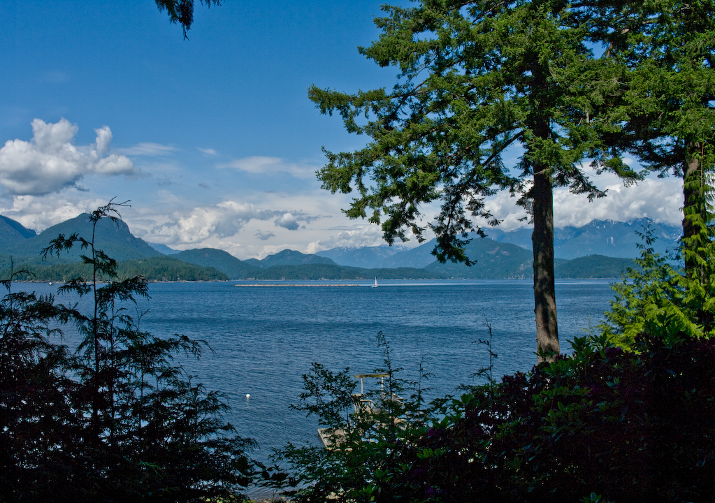 Looking north from Keats Island; the view includes Gambier Island